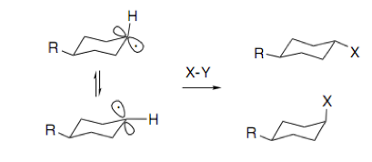 fdsafas